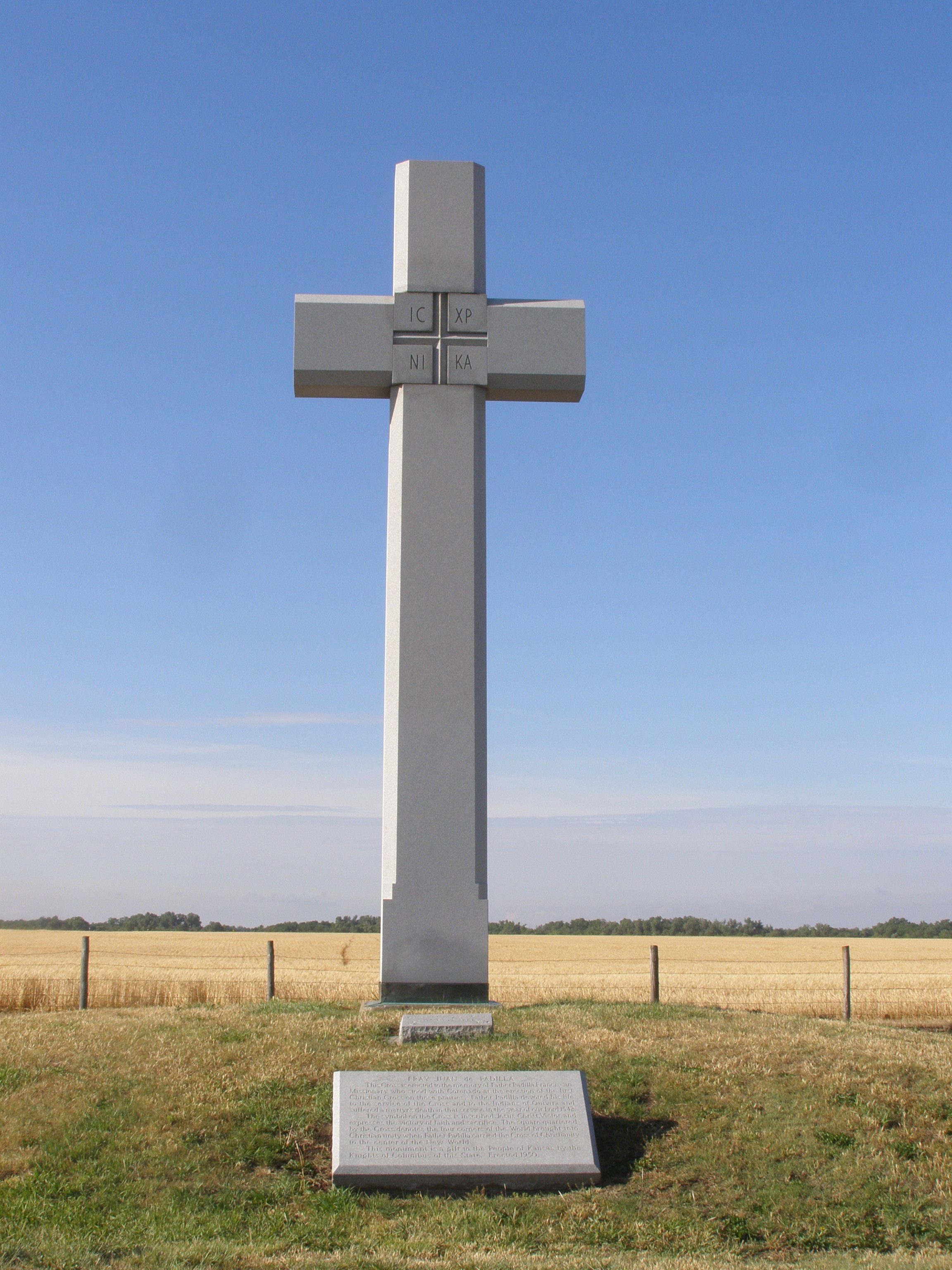 Fray Juan de Padilla Cross in central Kansas.